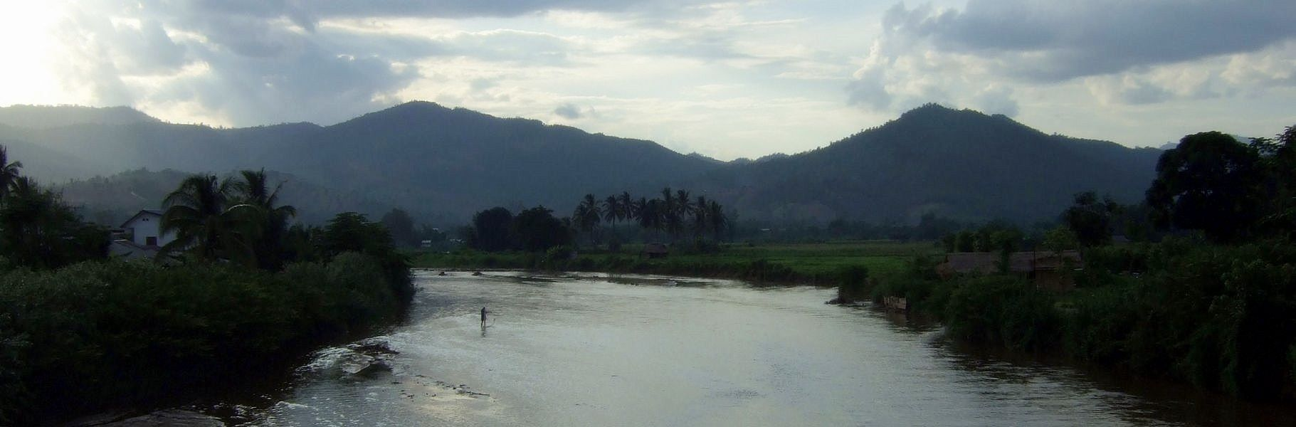 The river as seen from the bridge in the town of mae chaem near sun down